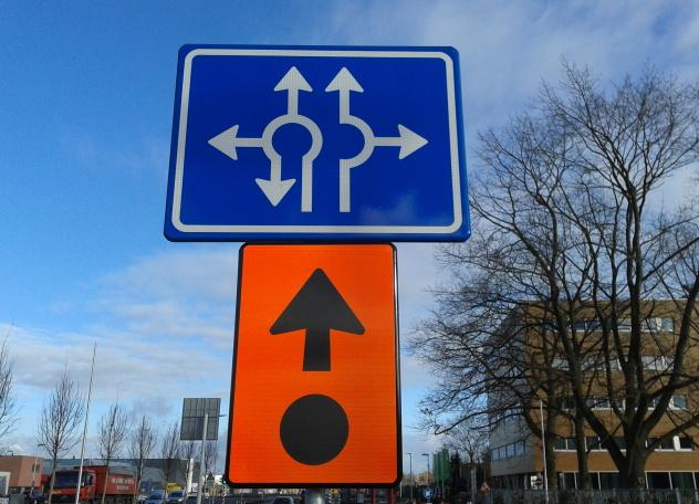 Road sign warning and informing motorists about the upcoming turbo roundabout. Location: Energieweg, Nijmegen, Netherlands.